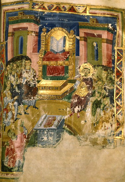 Homilies of Grégory de Nazianzus (BnF MS grec 510), folio 355. 1st ecumenical council of Constantinople (381)